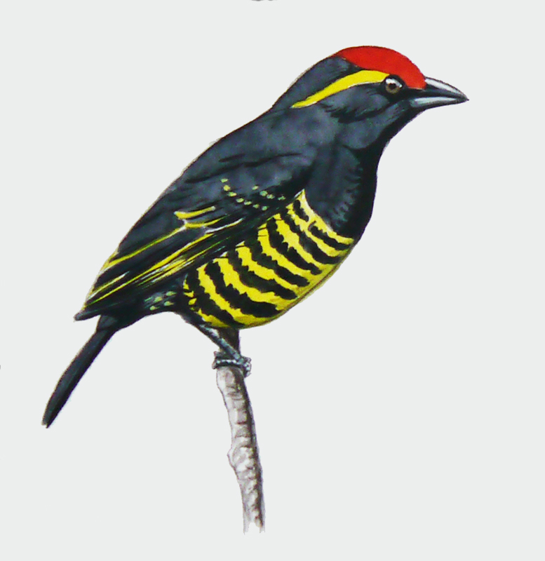 Yellow-spotted Barbet (Buccanodon duchaillui) - Watercolor, Romain Risso.